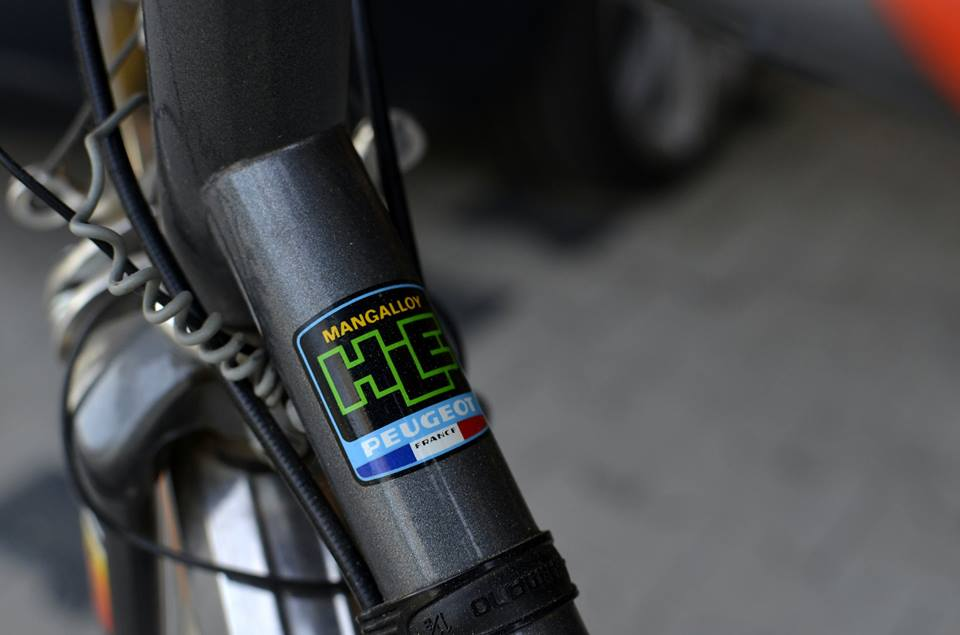 This is a picture of a magalloy steel bicycle frame. It is not common to find a magalloy bicycle frame as there has been only very few produced. Because of the hardness of mangalloy, frame builders have given up making frames using this material.